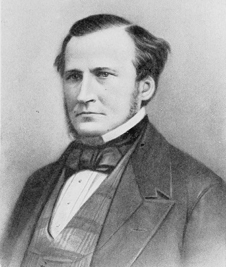 Fenner Ferguson (Nebraska Congressman)